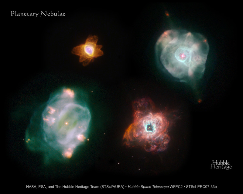 Four planetary nebulae: He 2-47, NGC 5315, IC 4593, and NGC 5307 captured by HST